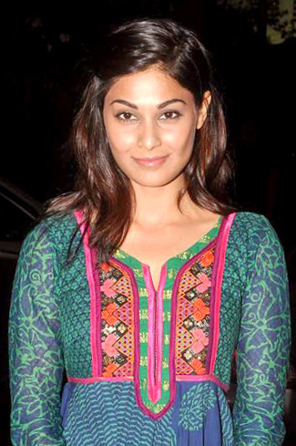 Puja gupta